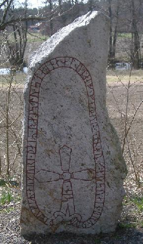 Runestone Sö 36 in Trosa municipality, Sweden.